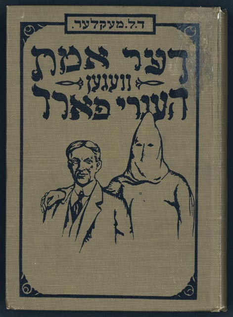 Cover of "The Truth about Henry Ford" aka "Der emes̀ ṿegen Henri Ford" (Der Emes Vegen Henri Ford)